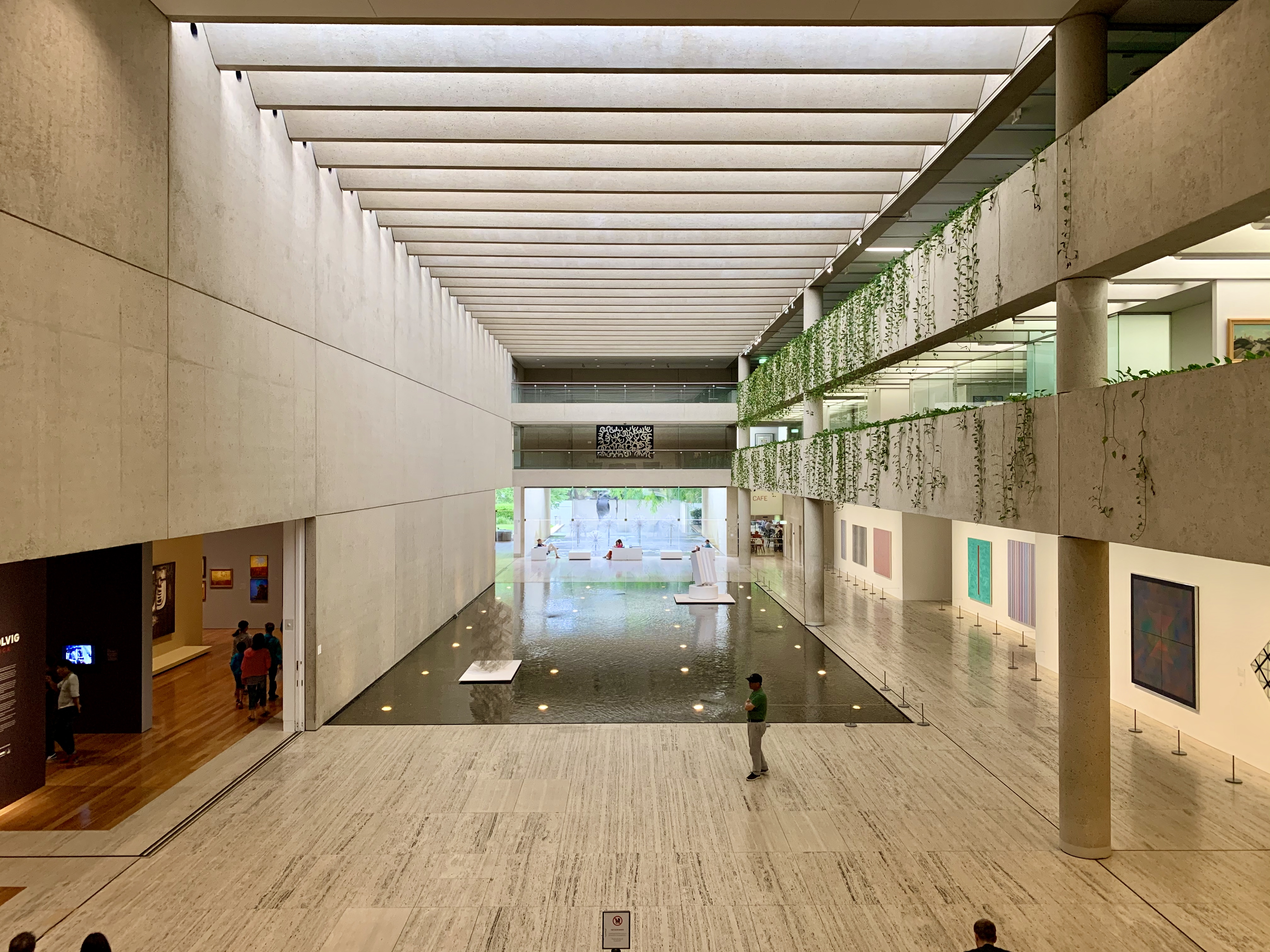 Main foyer of Queensland Art Gallery, Brisbane, Queensland